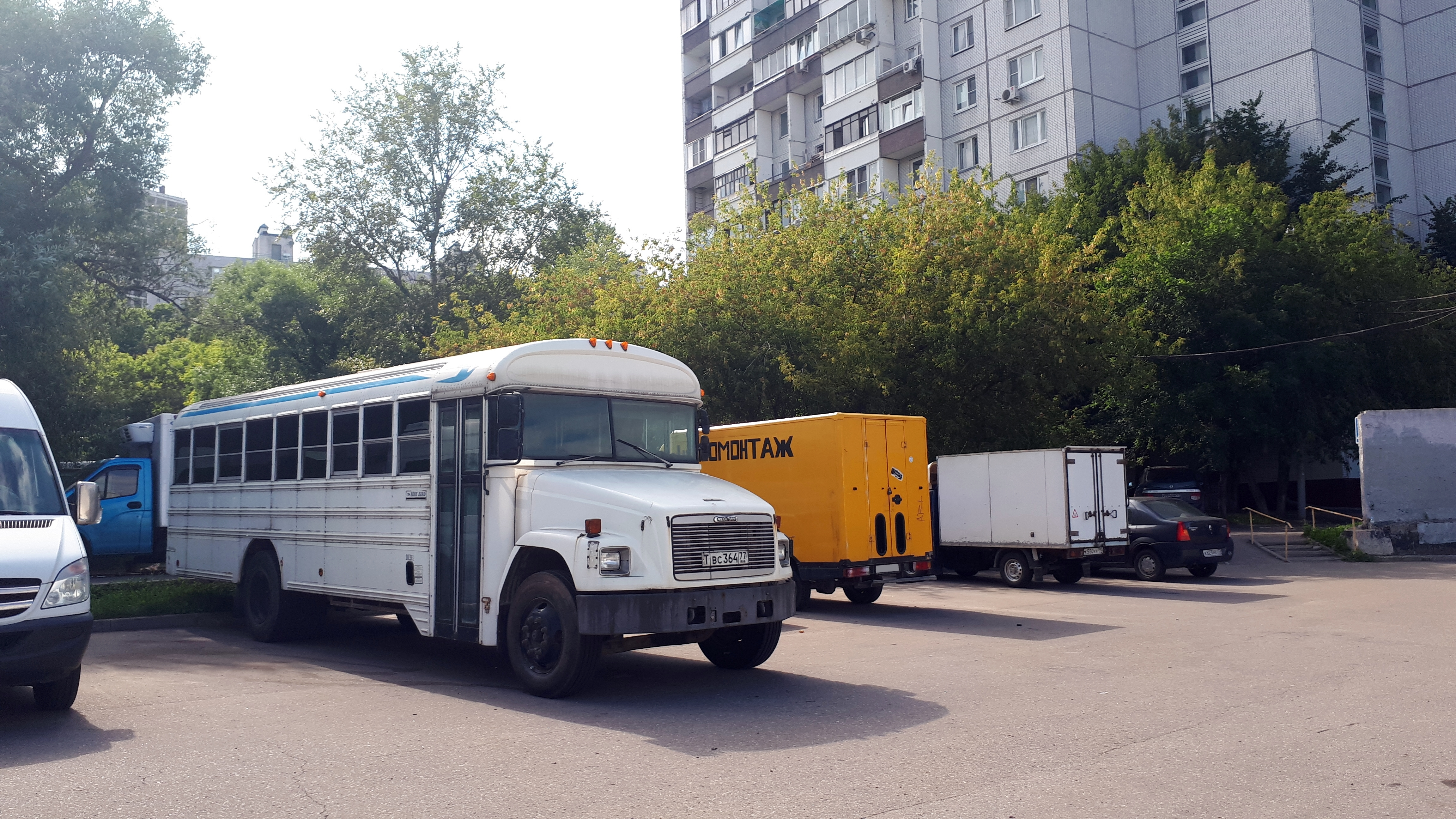 Freightliner FS-65 bus in Moscow.